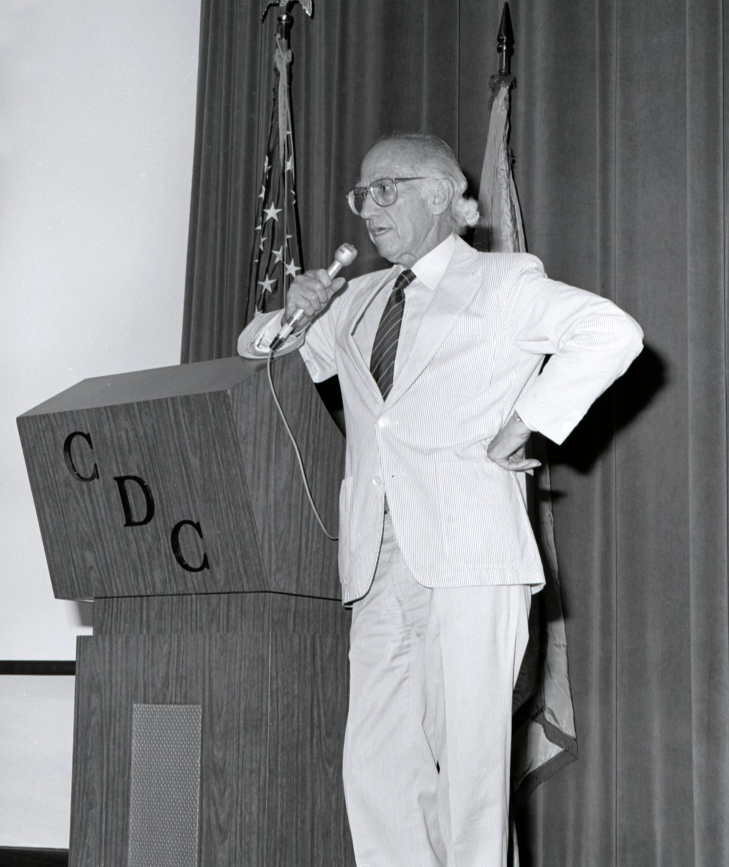 Standing at the podium during his 1988 Centers for Disease Control visit, this photograph showed Dr. Jonas Salk, creator of the first polio vaccine in 1955, fielding questions during his presentation. April 12, 2005, marked the 50th anniversary of the announcement that the polio vaccine, developed by Dr. Jonas Salk and his team of scientists at the University of Pittsburgh, was a success. "Safe, effective, and potent", were the words used to announce to the world that an effective vaccine had been found against a disease that once paralyzed 13,000--20,000 people each year in the United States alone.